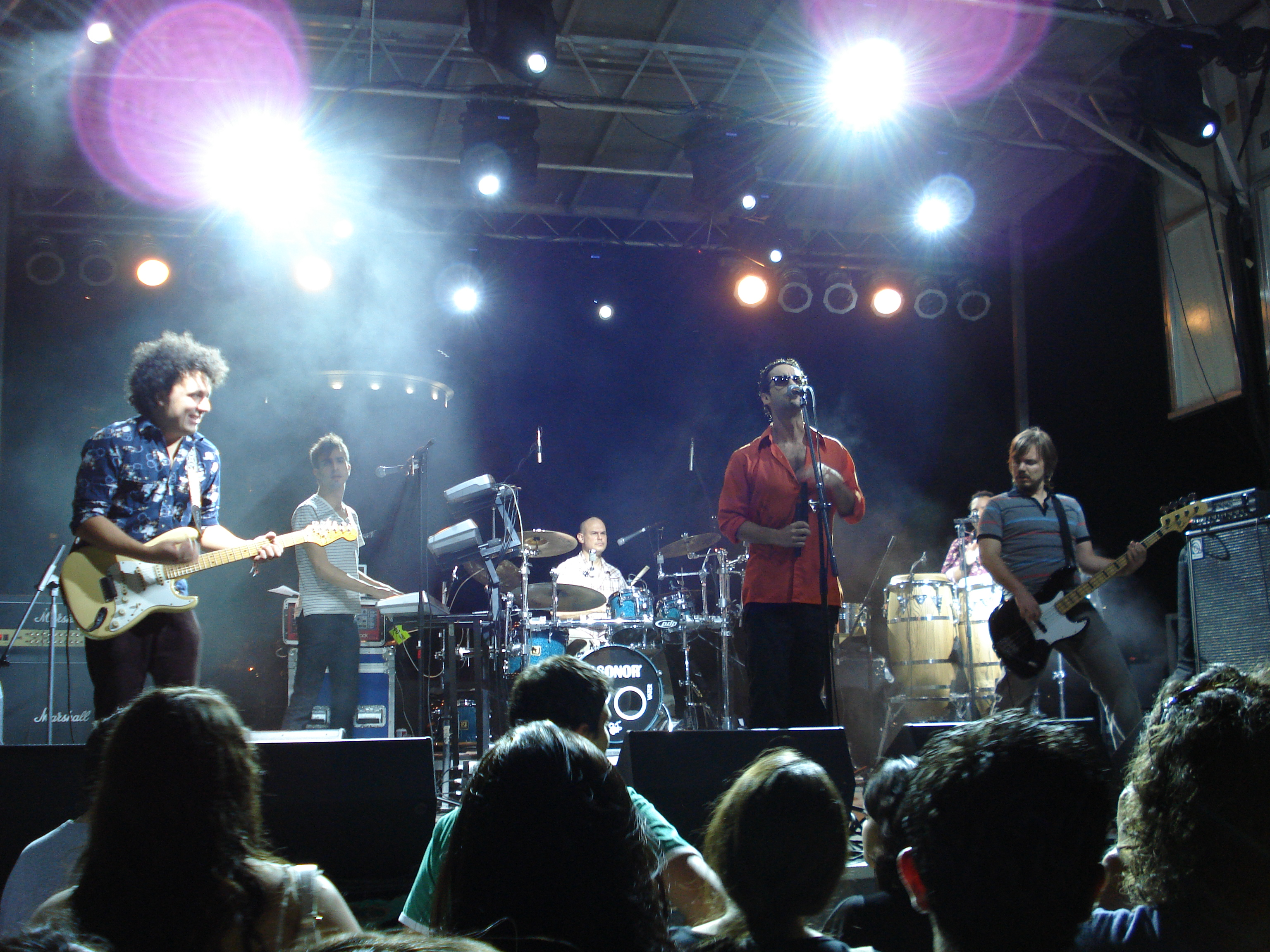 Los Amigos Invisibles at the Mexican American Cultural Centre, Austin, Texas on March 14, 2008